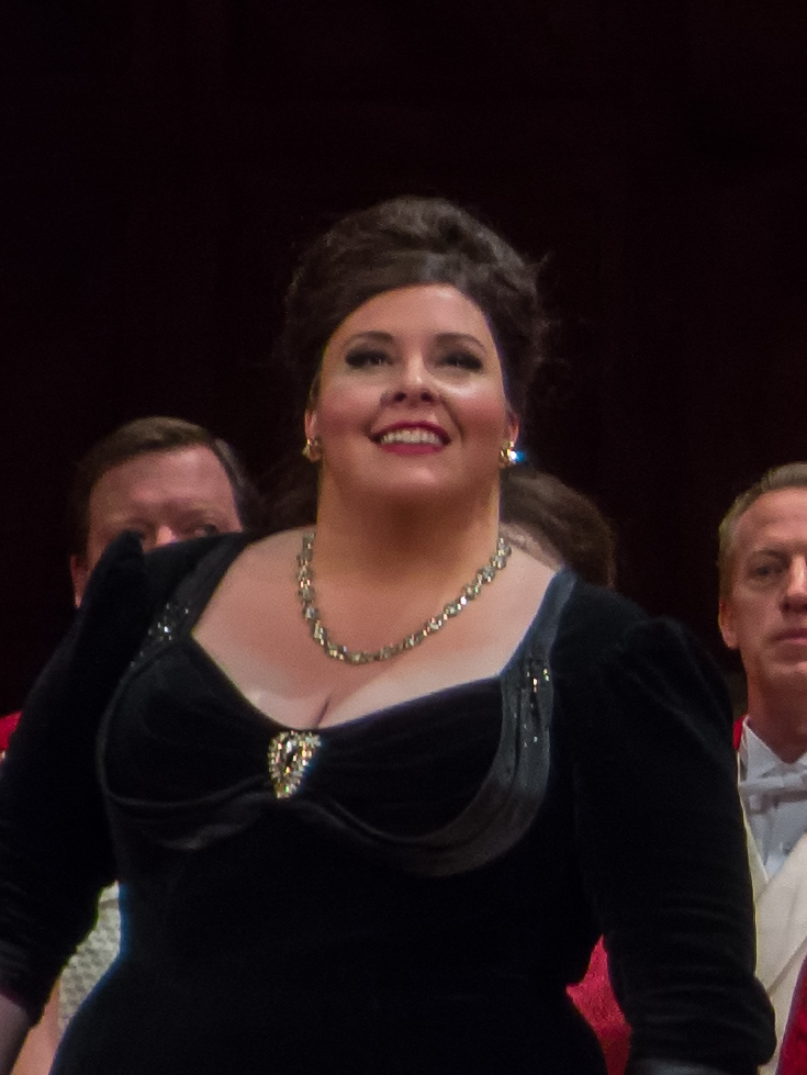 (L to R, front row) Angela Meade - Alice Ford Nicola Alaimo - Sir John Falstaff Paolo Fanale - Fenton Jennifer Johnson Cano - Meg Page Falstaff Metropolitan Opera House December 20, 2013